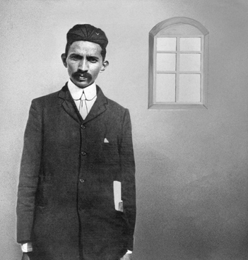 Gandhi during the early days of legal practice, Johannesburg, 1900.